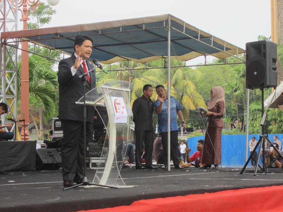 Husni Kamil Manik, Chairman of General Election Commission, Republic of Indonesia during a joint pledge of peaceful simultaneous local elections in West Sumatra 2015.